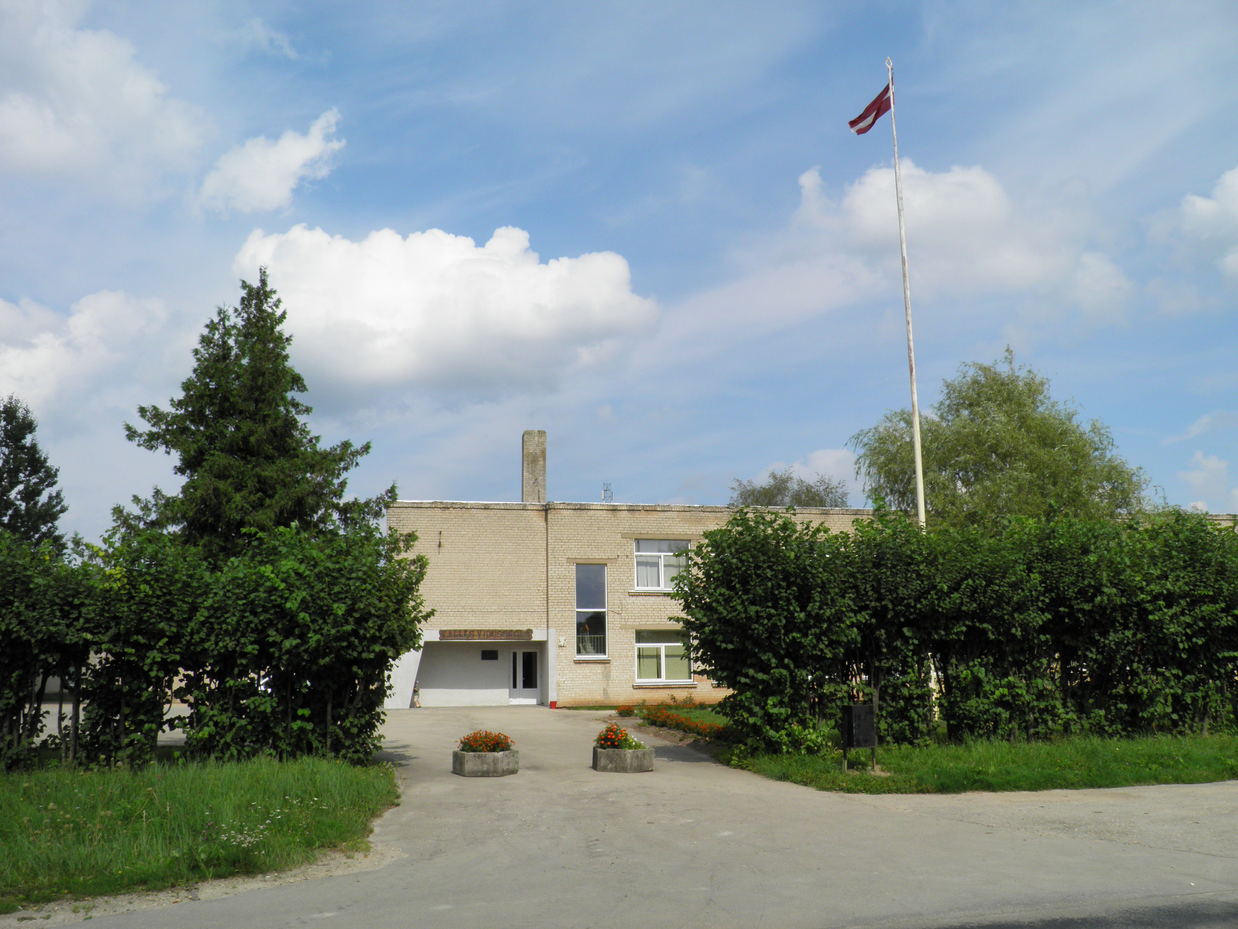 school